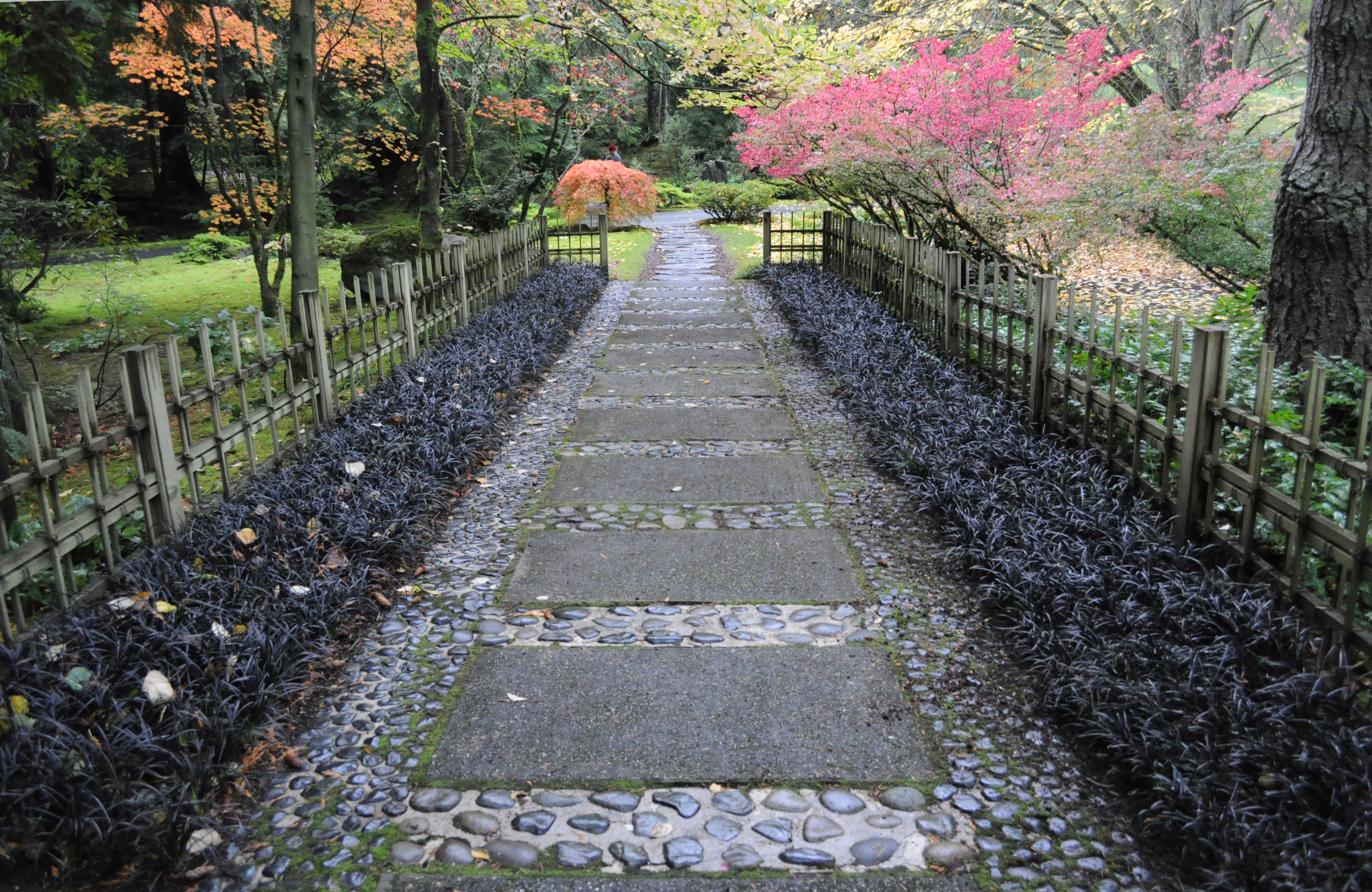 Stone path leading out of Japanese Garden — at the Bloedel Reserve, Bainbridge Island, Washington. If anyone knowledgeable can identify plants prominently visible in this image, please do edit accordingly.